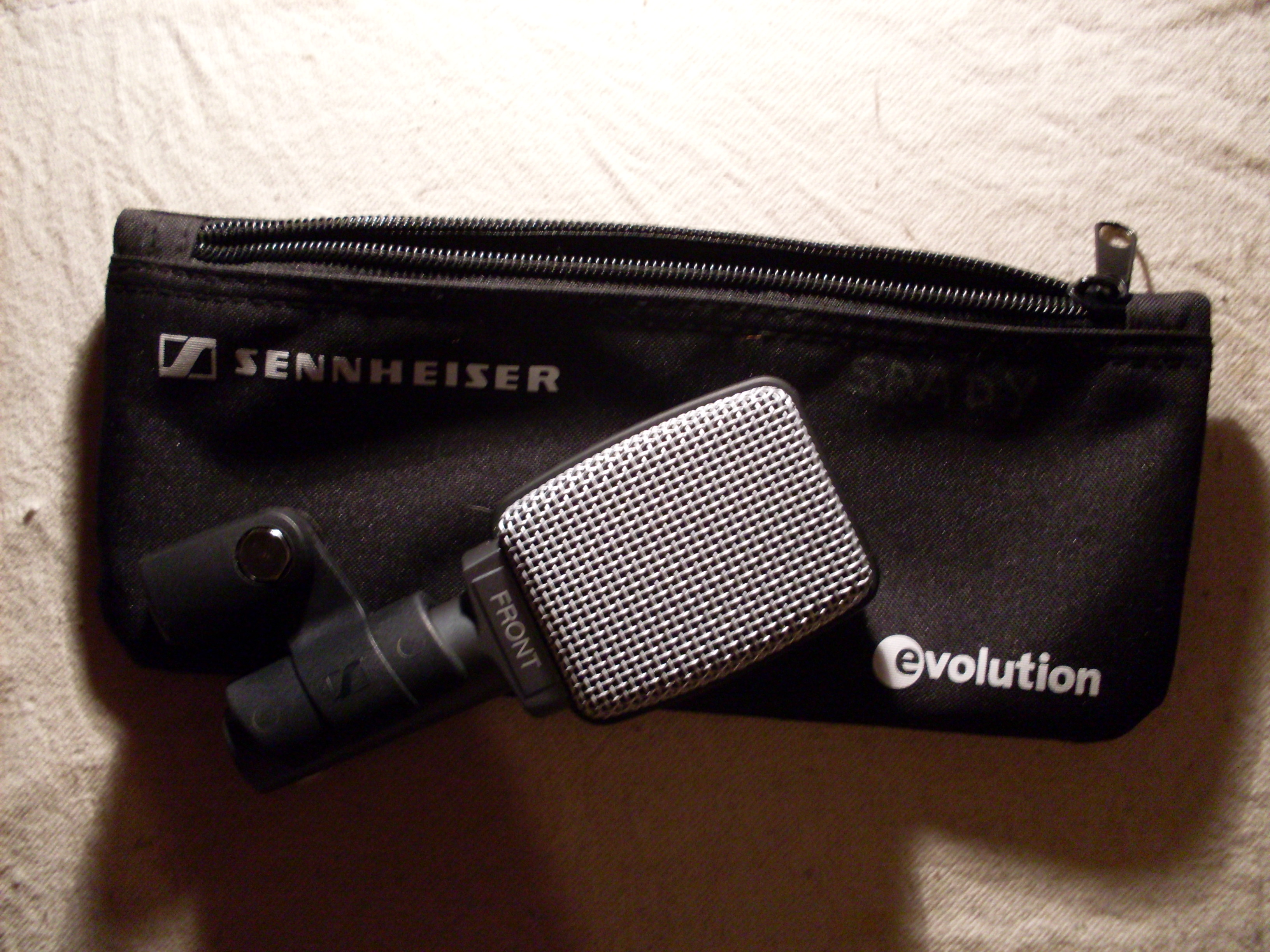 Sennhesier e609 Silver microphone. Designed for use on guitar speaker cabinets.